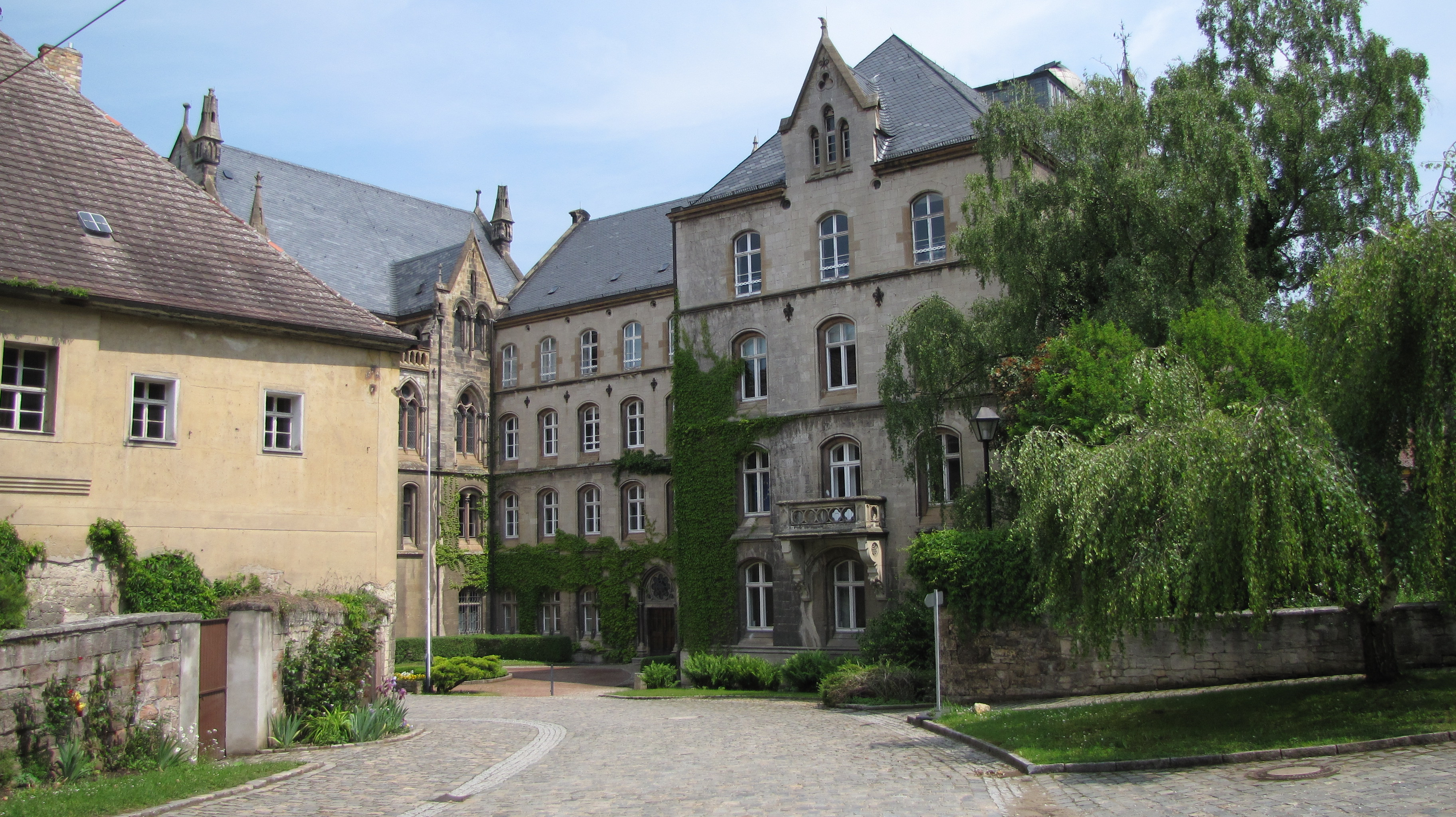 Altes Schulhaus in Schulpforte